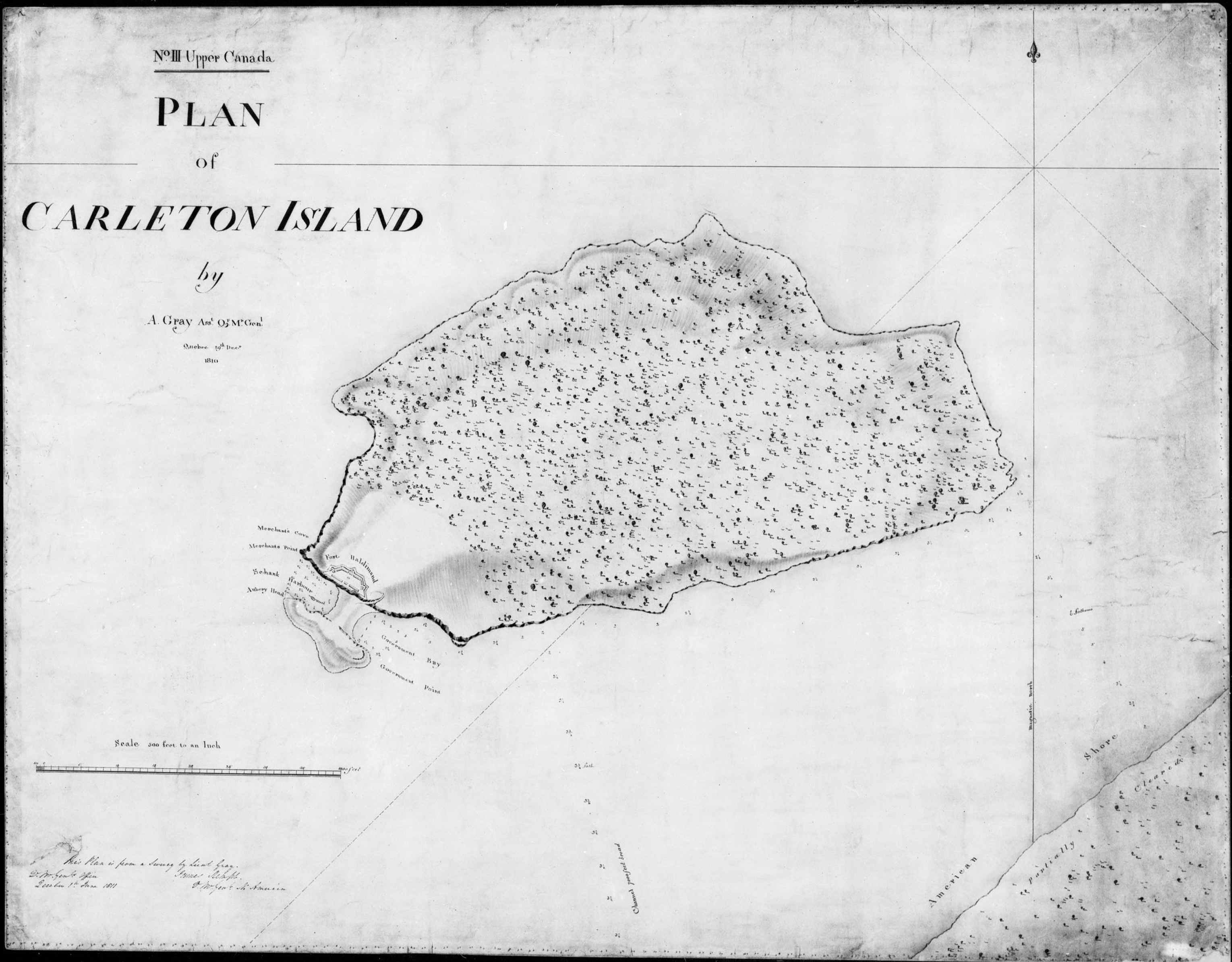 No. III Upper Canada. Plan of Carleton Island by A. Gray, Asst Qr.Mr.Genl. Quebec 29th Decr. 1810. [Signed] James Kempt Q.M.Genl.N. America. Quebec 1st June 1811. [cartographic material]. Details only at western end of island - Fort Haldimand. Place of creation: Canada.